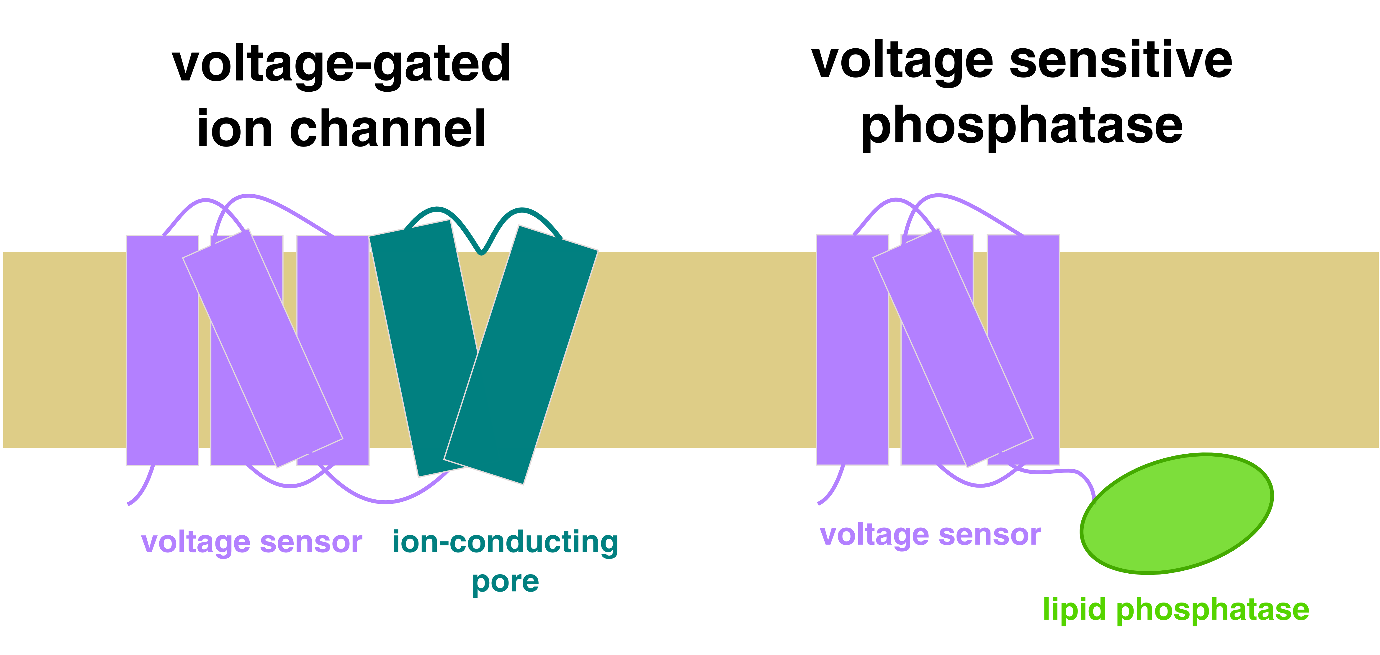 Schematic depicting the conserved voltage sensing domain in voltage-gated ion channels and voltage sensitive phosphatases.